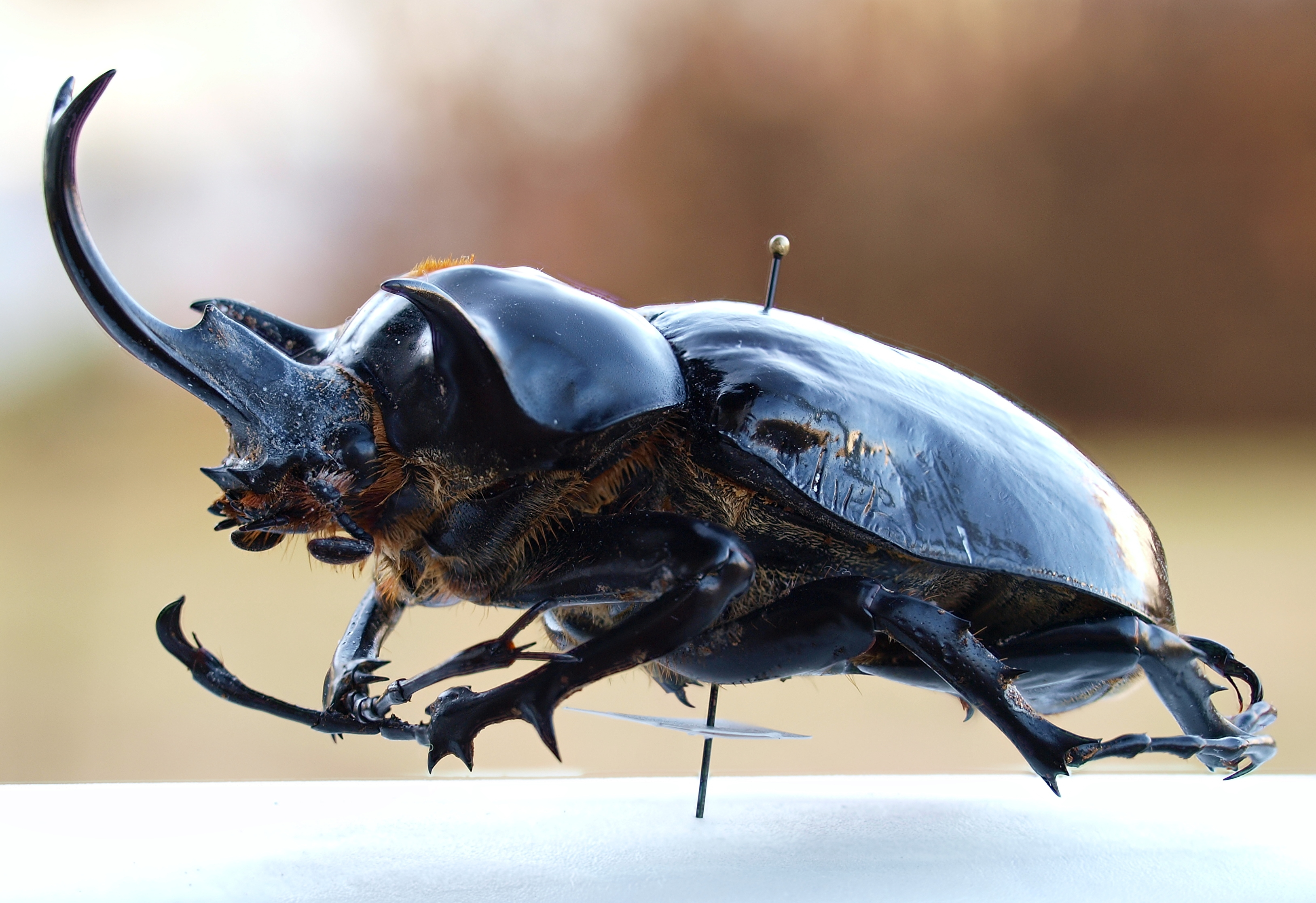 Megasoma mars, male